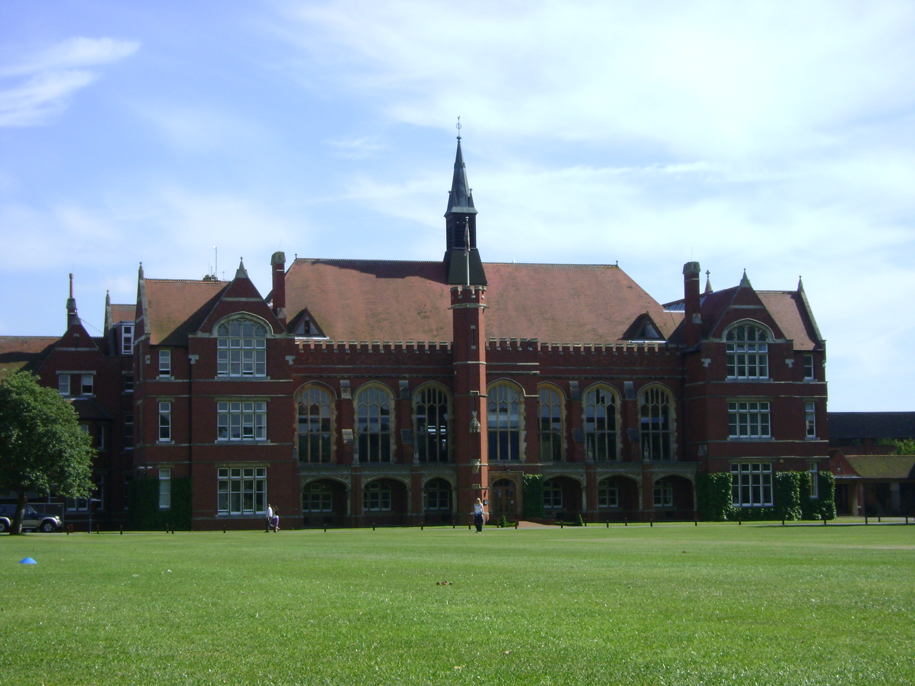 Digital photograph of Bedford School taken in person by Nauplionus on 01/07/2008